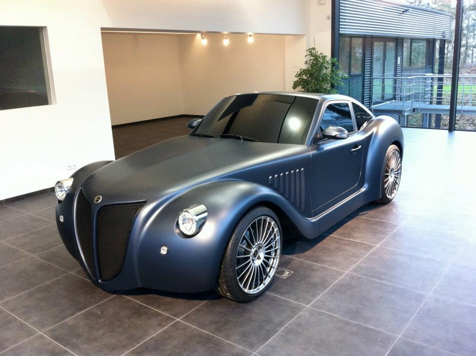 Imperia 3-4 avant